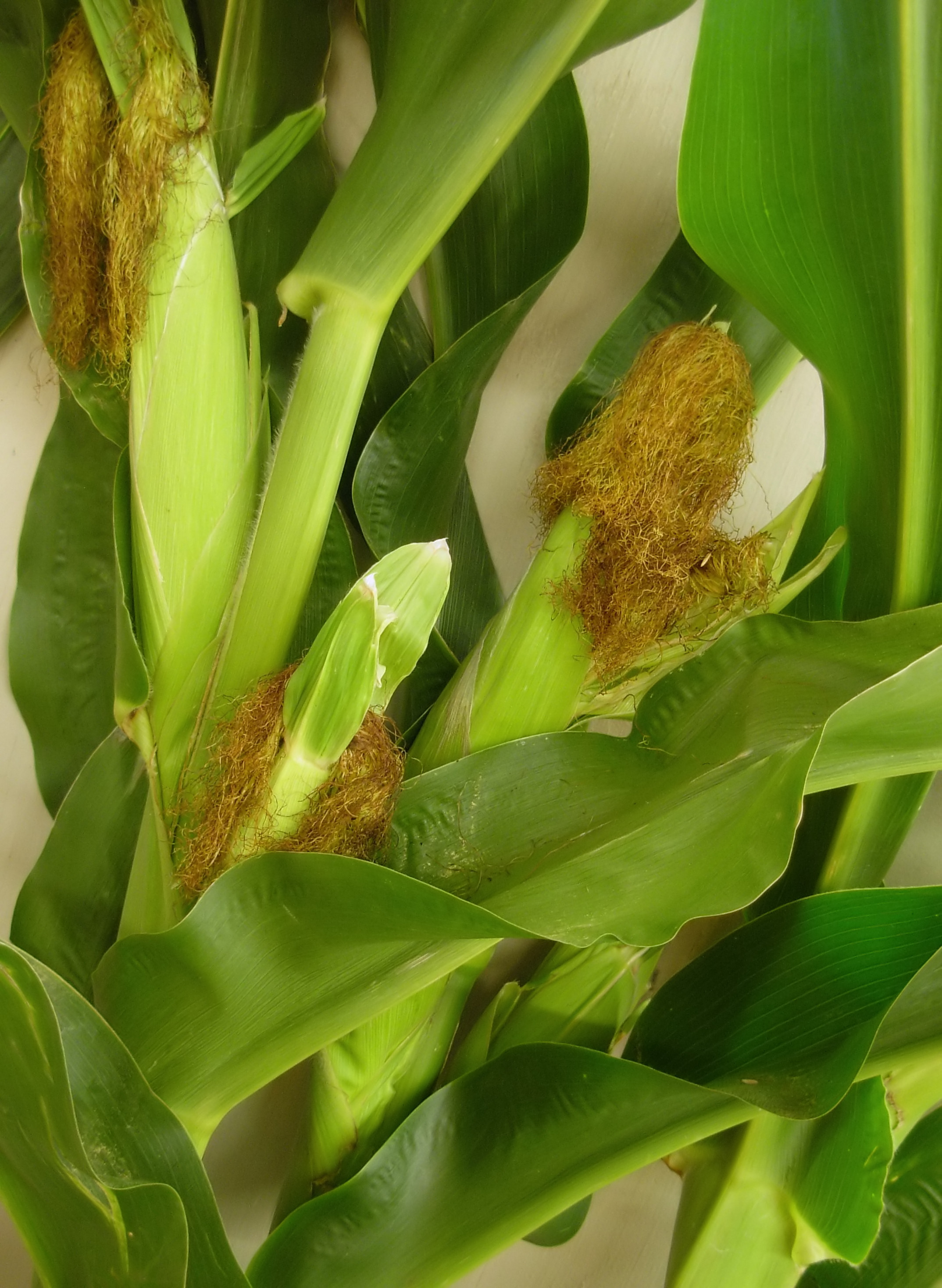 Award-winning stalks of corn or maize (Zea mays) at the Olmsted County Fair in Rochester, Minnesota.